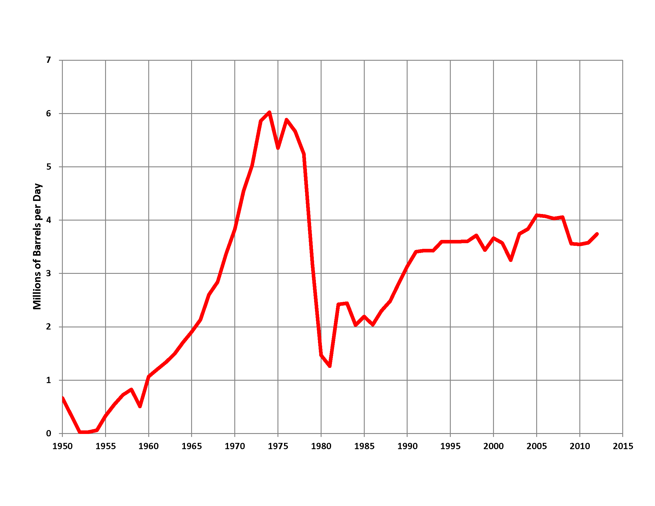 Oil production in Iran 1950-2012